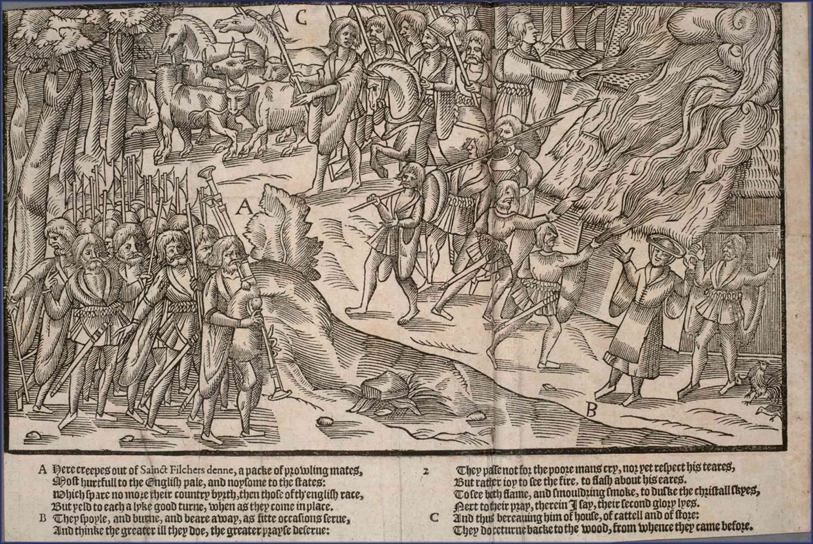 A plate originally from The Image of Irelande, by John Derrick, published in 1581.This image was taken from this Edinburgh University Library website - [1], with the description - "An armed company of the kerne, carrying halberds and pikes and led by a piper, attack and burn a farmhouse and drive off the horses and cattle".